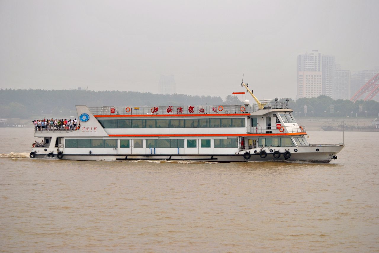 Ships and Ports of Wuhan Ferry.